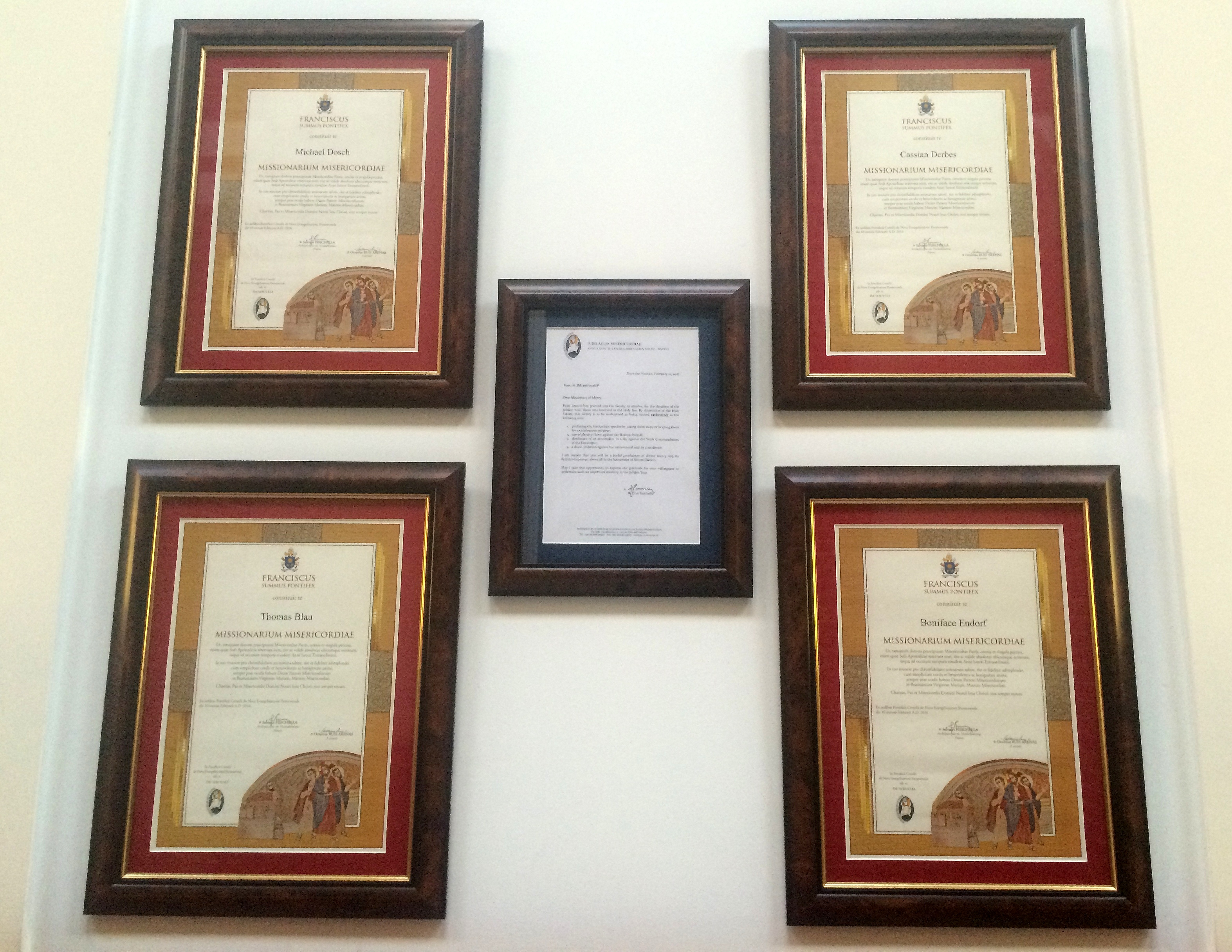 Saint Patrick Catholic Church (Columbus, Ohio) - Missionary of Mercy certificates